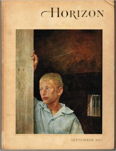 Cover of Horizon Magazine, Vol. 4, No. 1, Sept 1961, which includes an interview of Andrew Wyeth conducted by George Plimpton.